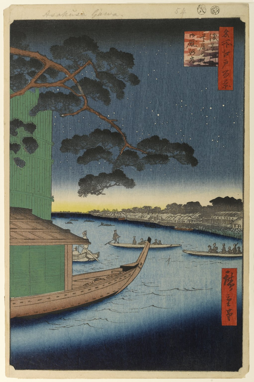 Part of the series One Hundred Famous Views of Edo, no. 061, part 2: Summer.